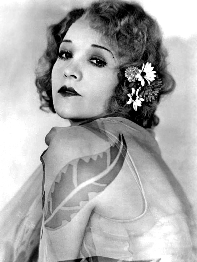 Publicity photo of Betty Compson